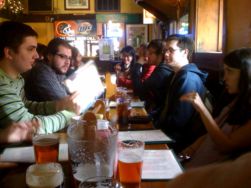 Customers in the Mirage after its sale